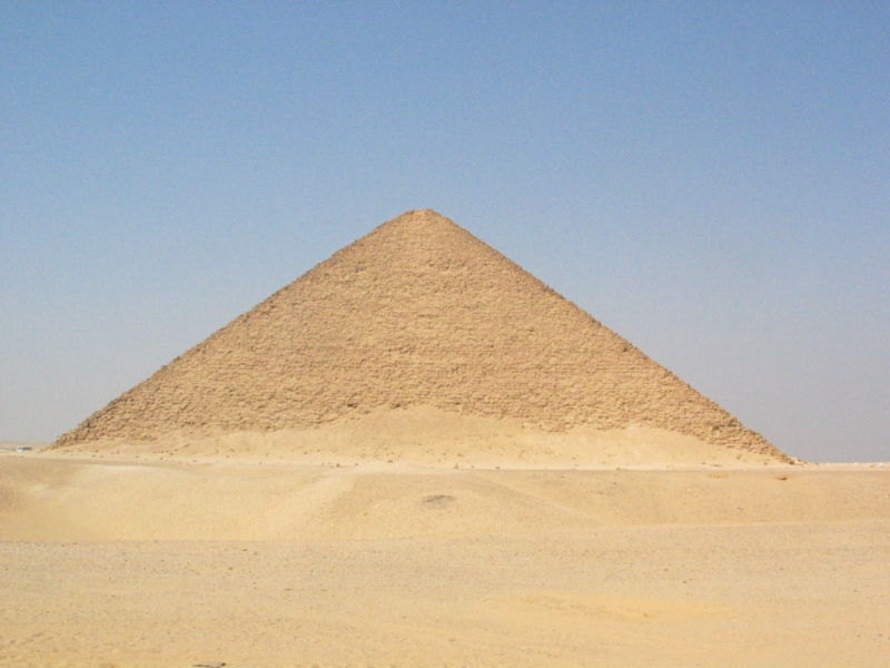 South face of the Red Pyramid of the Egyptian pharao Sneferu (c. 2613-2589 BC) in Dahshur, south of Cairo.